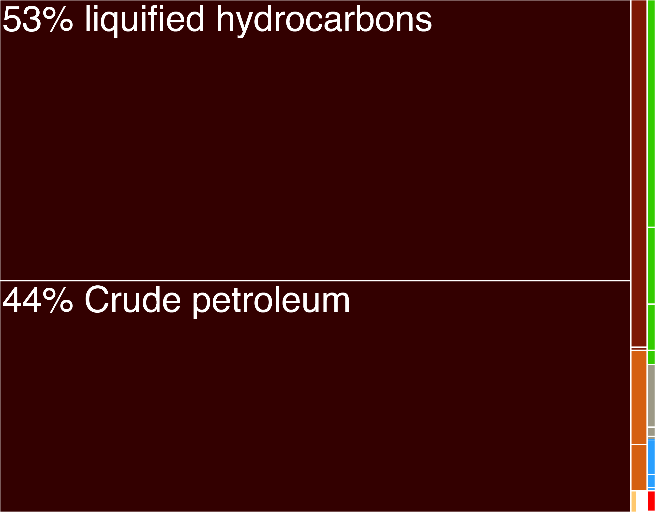 Exports of Brunei Treemap. Year 2009